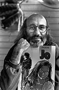 Derib